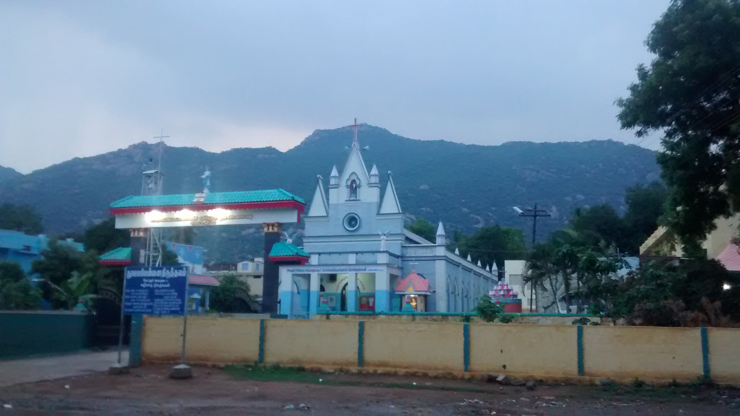 Church in Mettur